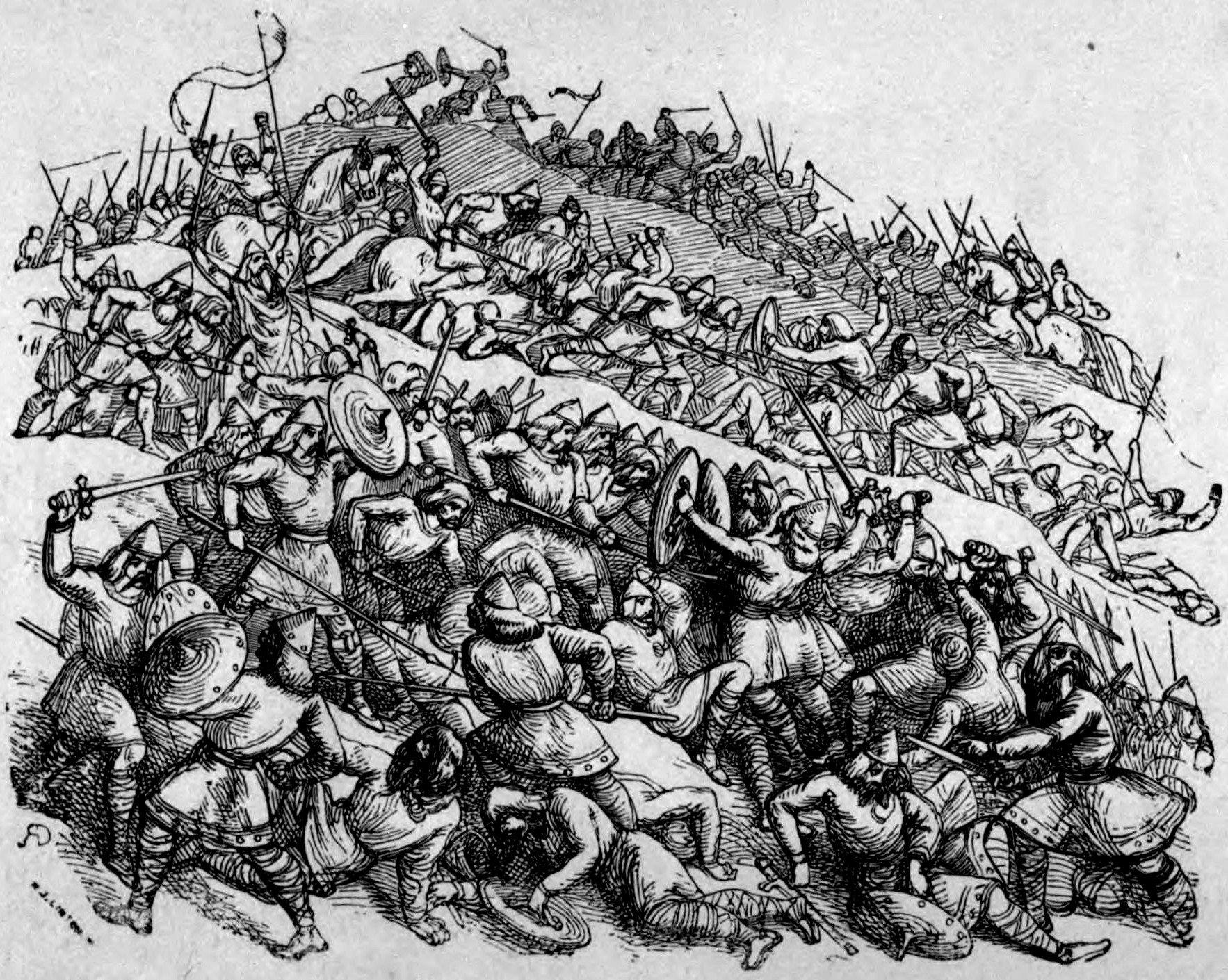 Illustration of the Battle of Ashdown. The image appears on the frontispiece of: Hughes, T (1859). Scouring the White Horse; Or, the Long Vacation Ramble of a London Clerk.